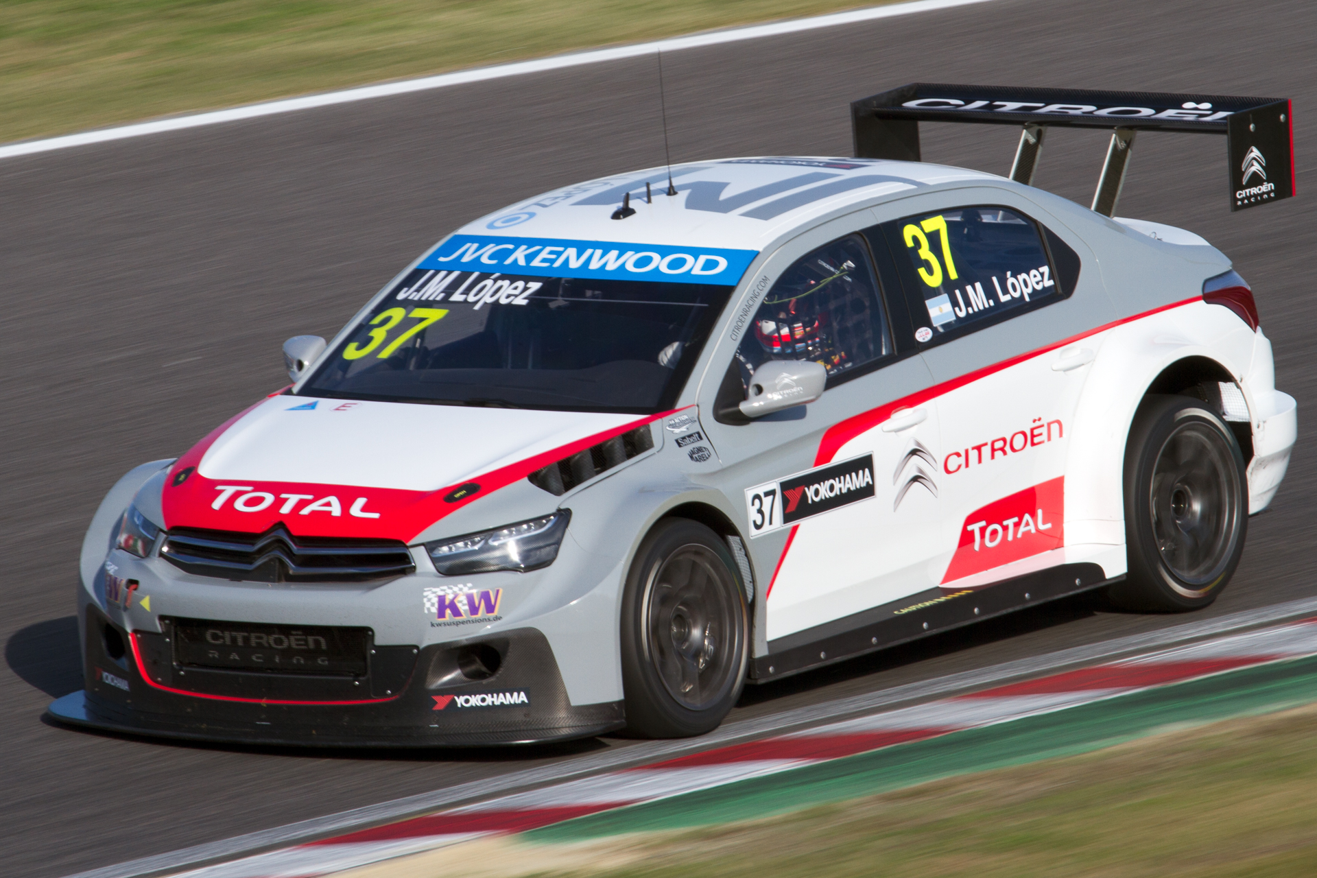 World Touring Car Championship 2014 Race of Japan: José María López (Citroën)